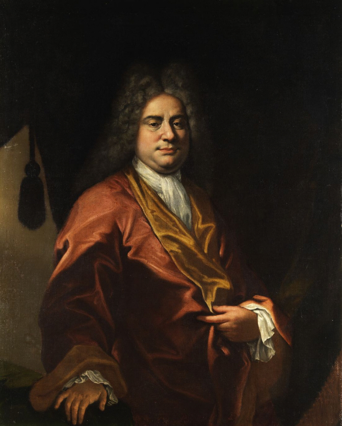 Portrait of a gentleman in his housecoat, oil on canvas, 120 x 96 cm